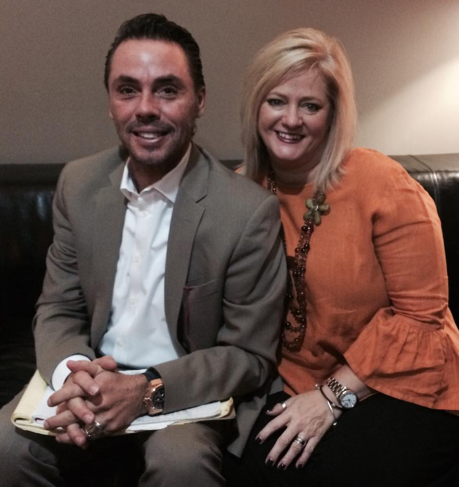 Michael and Kathi Pitts